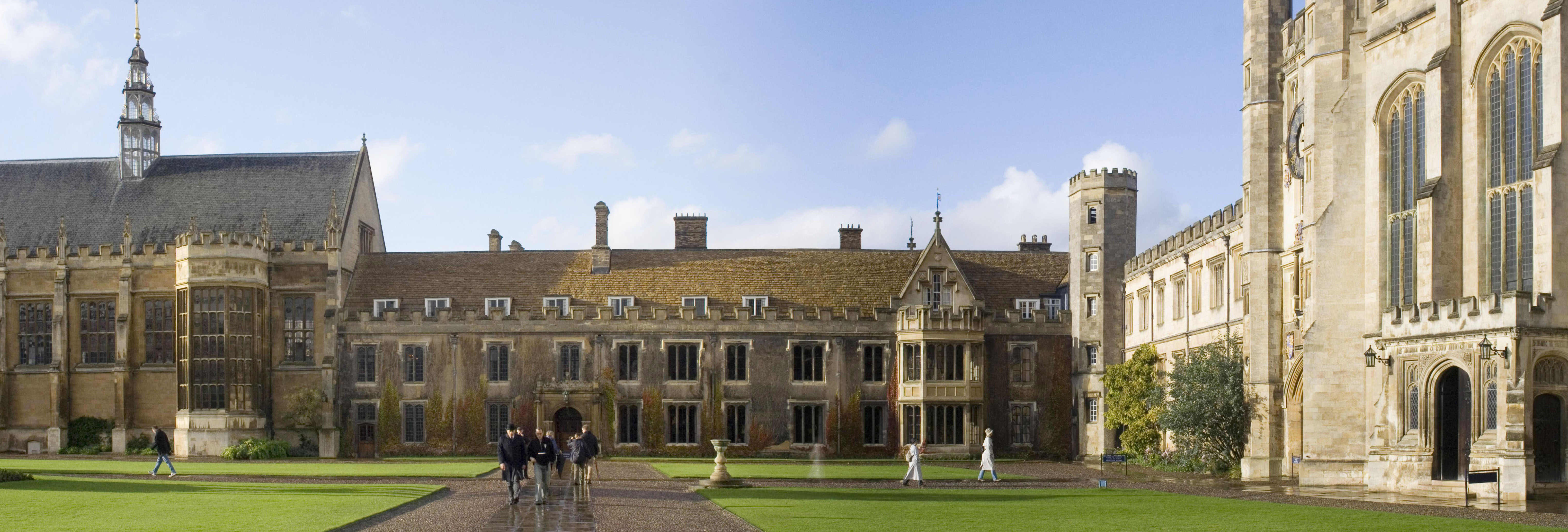 Trinity College Courtyard, Cambridge